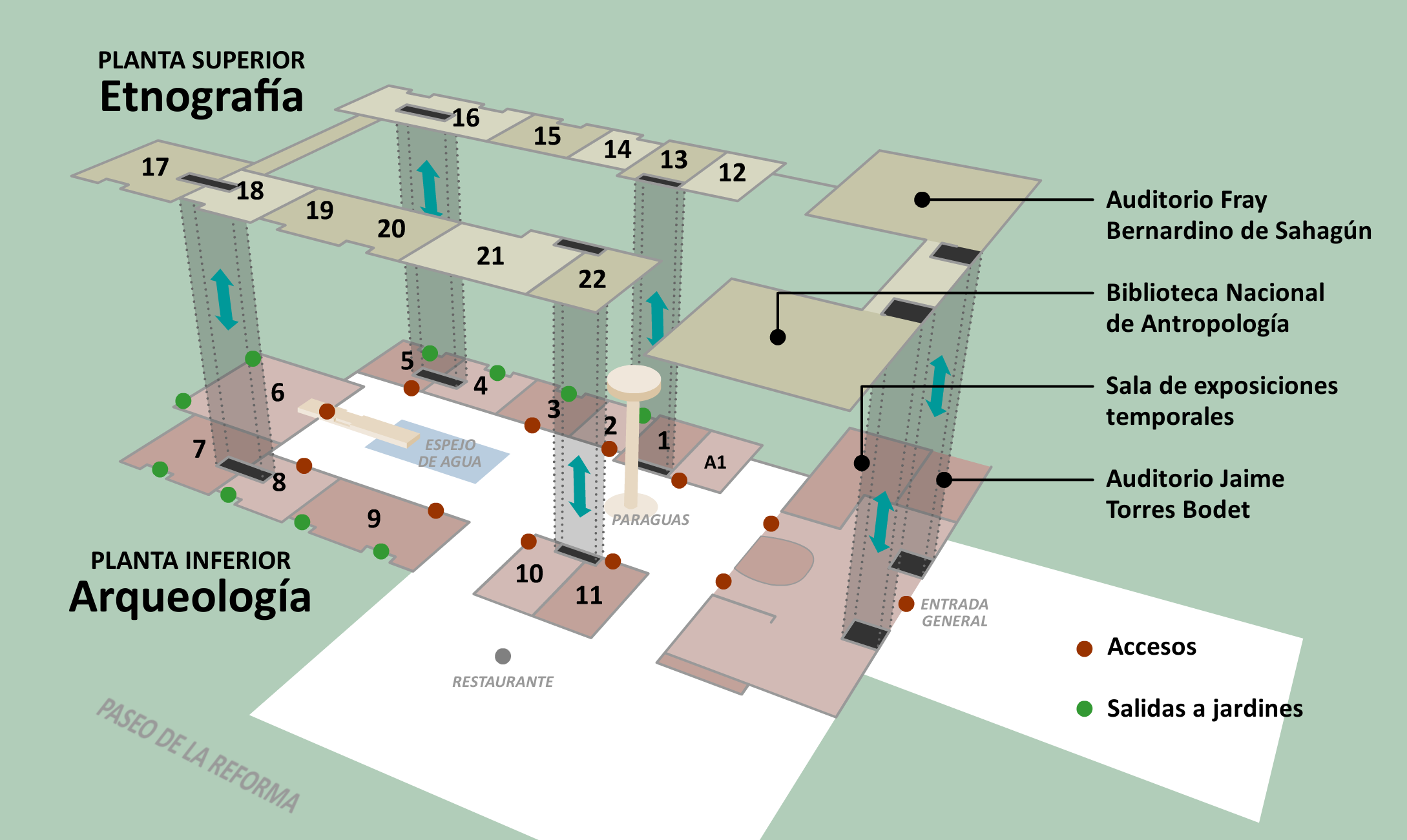 Map of the National Museum of Anthropology (MNA) of Mexico, Mexico City